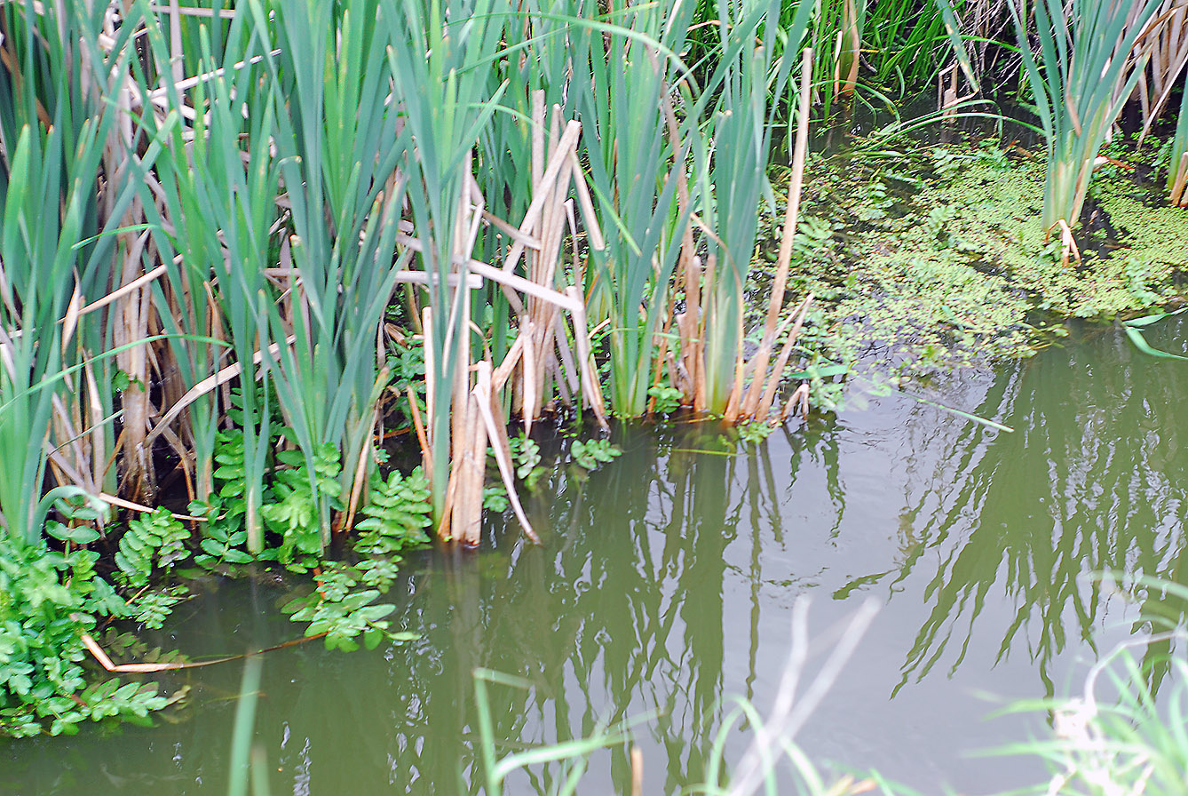 Vegetation in the small river in Hungary/Serbia